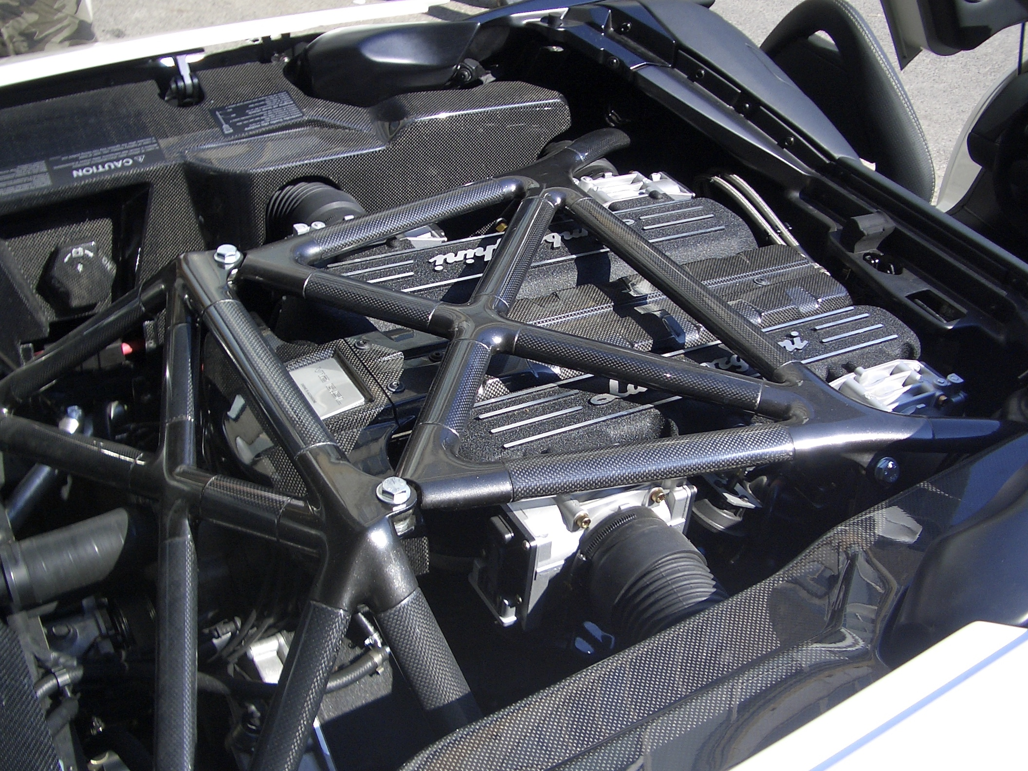 Lamborghini Murciélago LP640 Roadster Engine